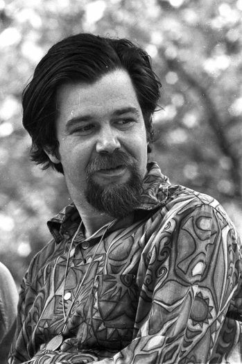 Dave Van Ronk performs at the 1968 Philadelphia Folk Festival.